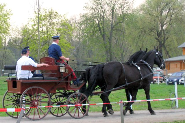 Description Two black Kladrubers with coach, Czech Republic Date2005Source Čertík (cocopelli)Permission (Reusing this file) ask before use